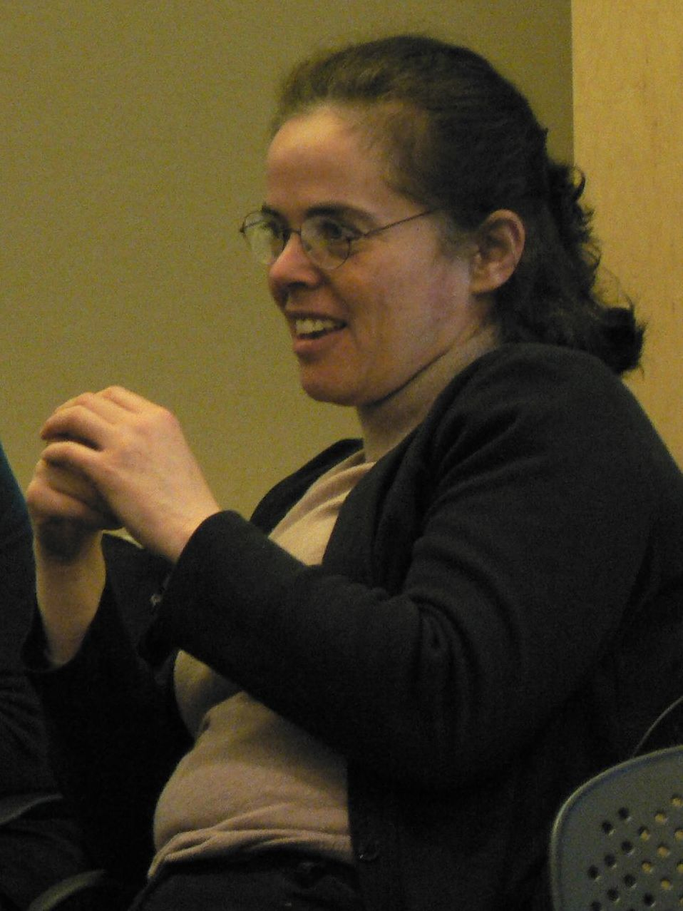 Eva Tardos attending the Cornell/Microsoft Research International Symposium on Self-Organizing Online Communities